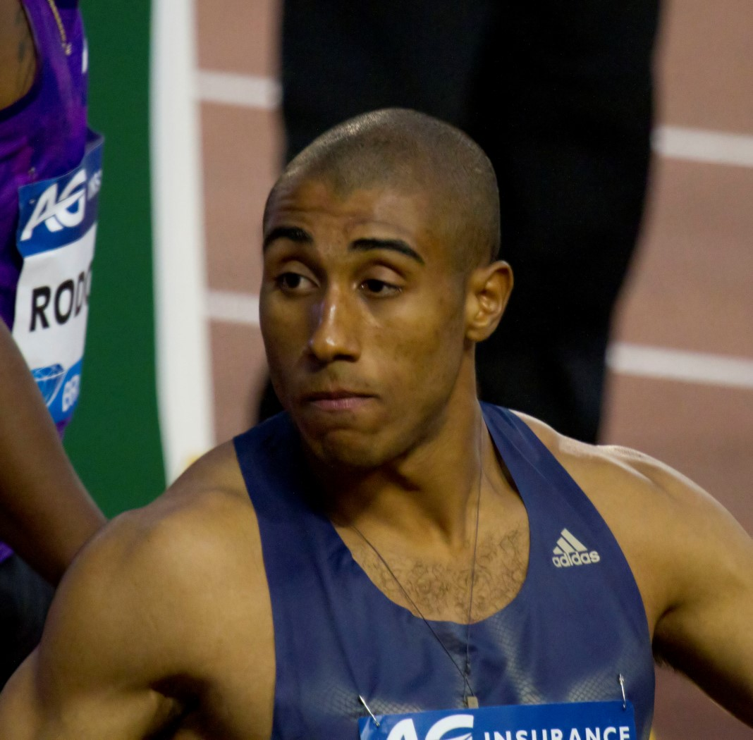 Jimmy Vicaut during 2015 Memorial Van Damme, Brussels